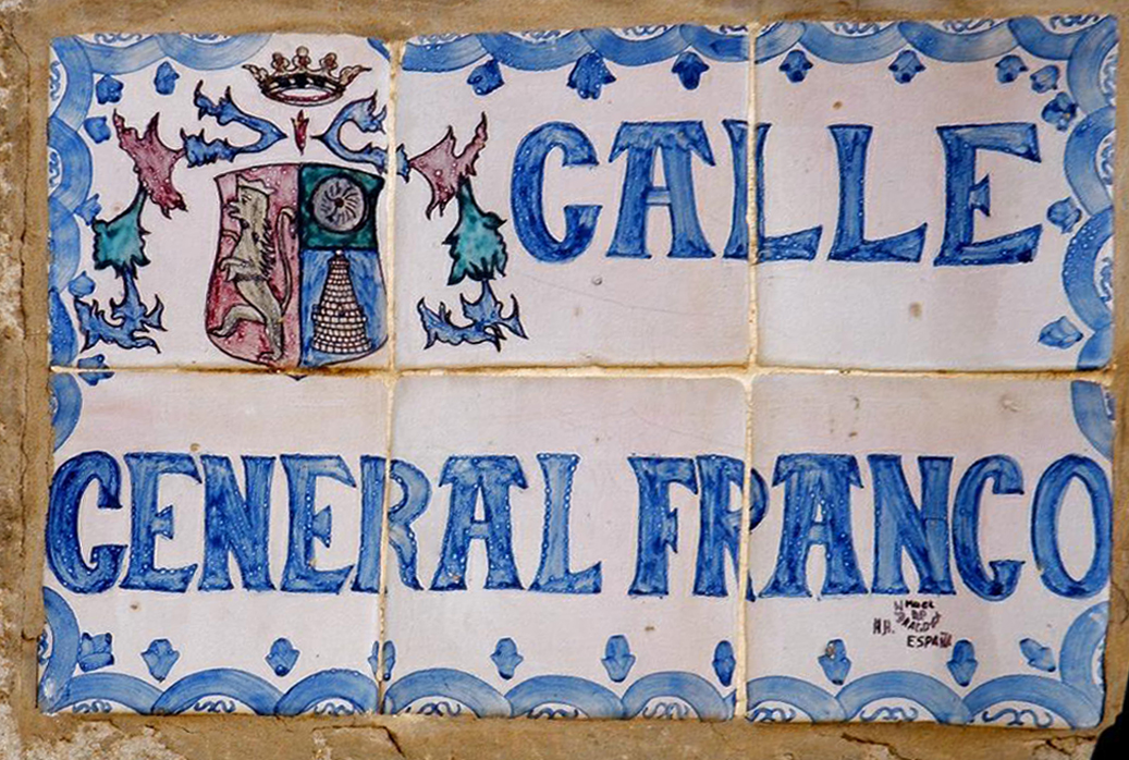 Unbelievable, but true: the General Franco Street in Muel, Zaragoza (Aragón, Spain)